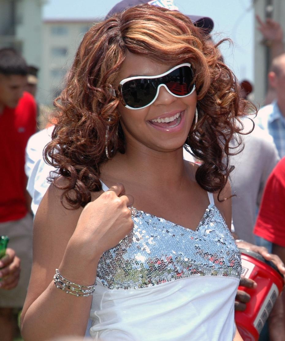 Rhythm and blues singer Ashanti, wearing all white, smiles for the camera on Camp Hansen, Japan, June 5, 2005, after she speaks with U.S. Marines during a United Service Organizations tour.